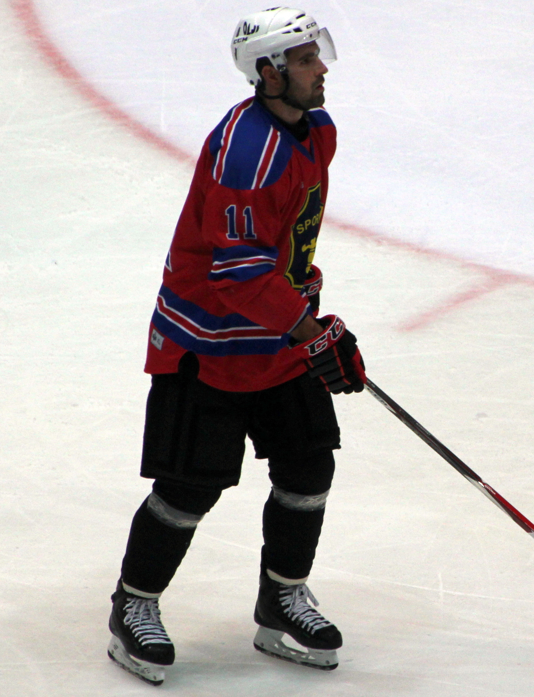 Damien Fleury in 2014